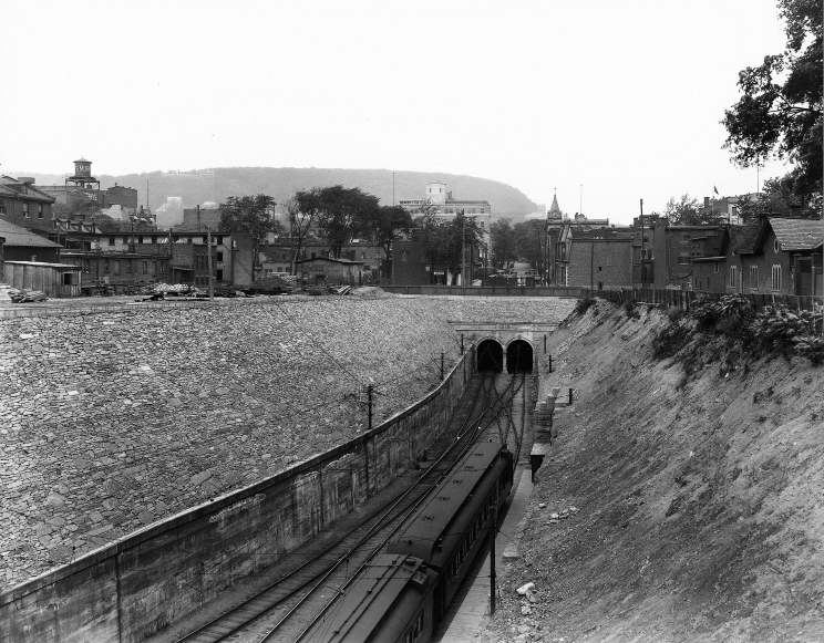 Photograph, C.N.R. tunnel under Mount Royal, Montreal, QC, 1918(?), Wm. Notman & Son, Silver salts on film (nitrate ?) - Gelatin silver process, 19 x 24 cm